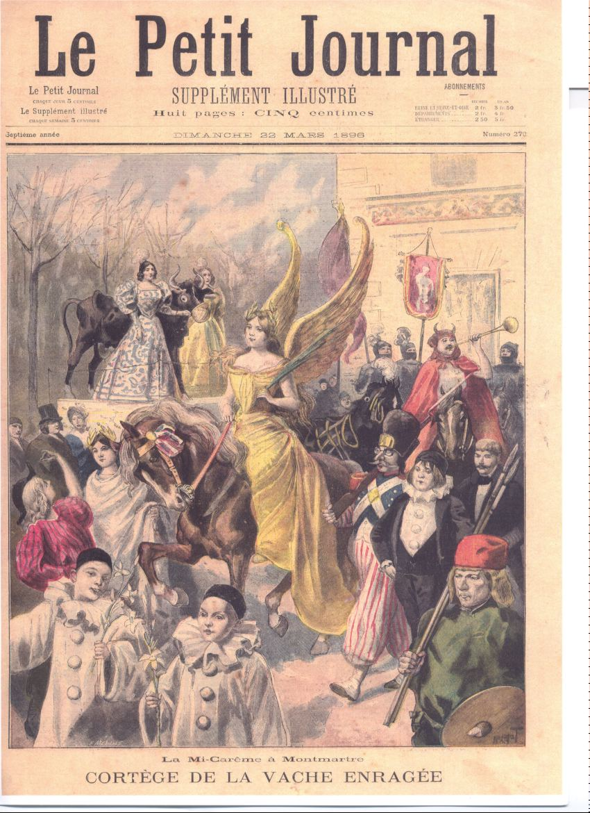 Cover of illustrated supplement of "Le Petit Journal", feast of Montmartre : "la Promenade de la Vache enragée".